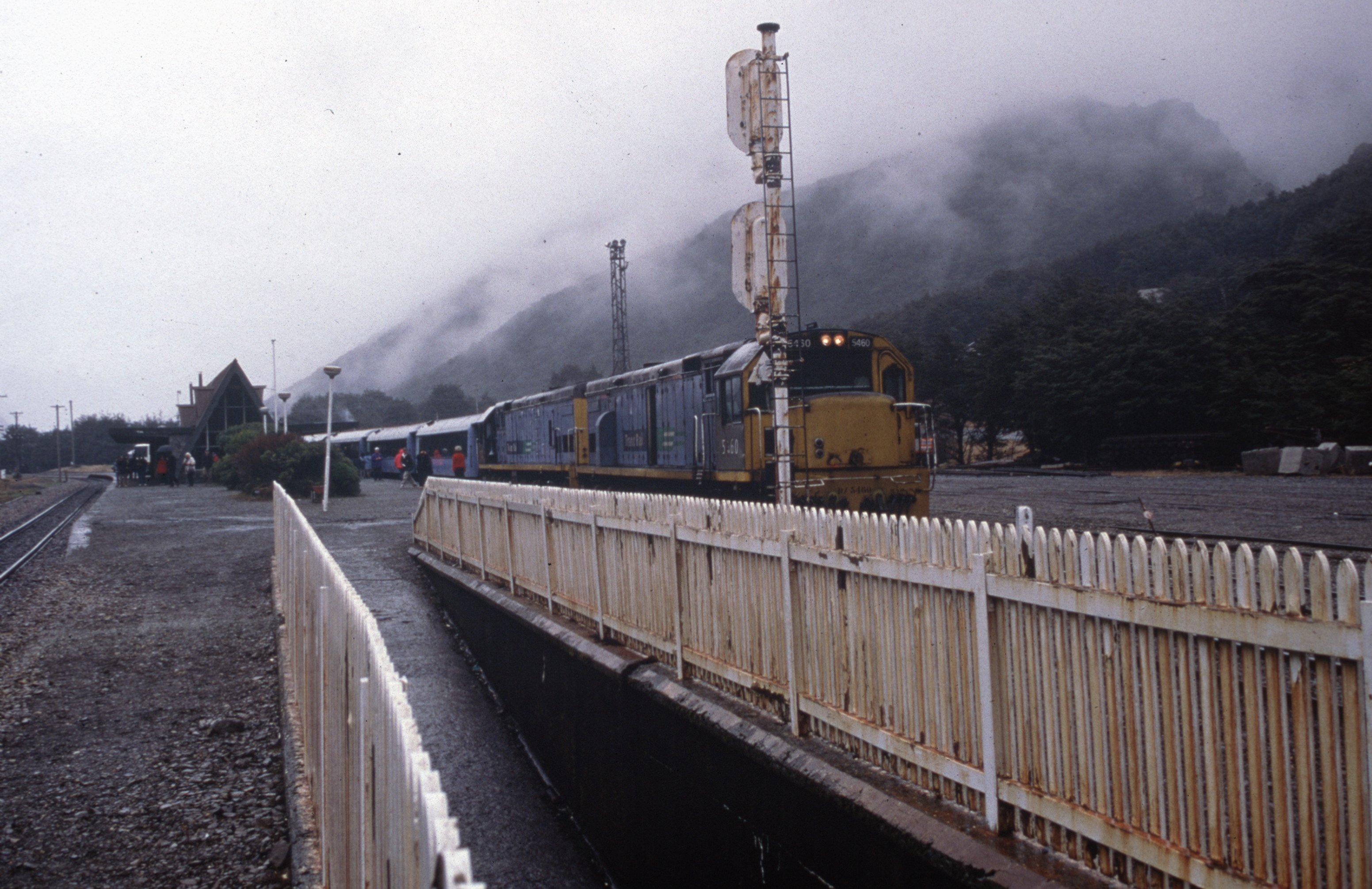 TranzAlpine at Arthur's Pass, New Zealand.